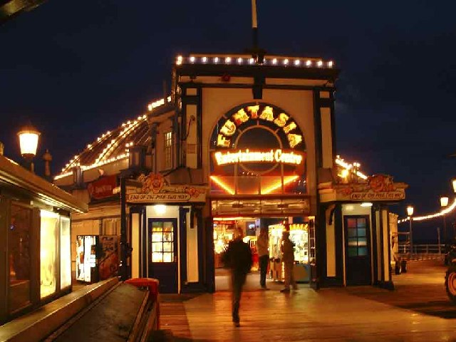 Eastbourne Pier at Night